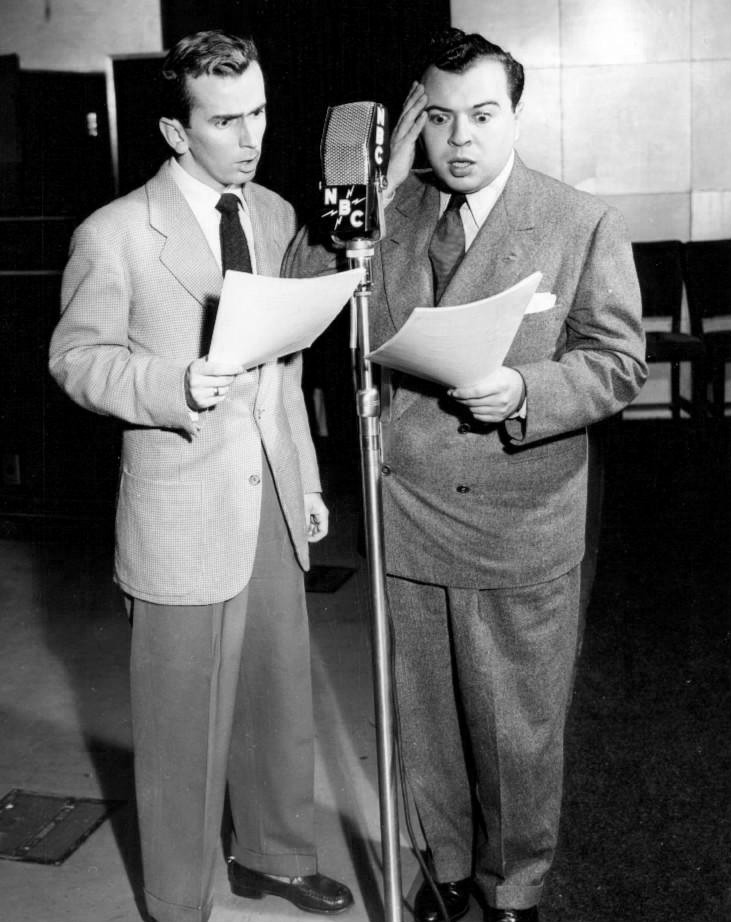 Publicity photo of Ezra Stone (played Henry Aldrich, right) and Jackie Kelk (played Homer Brown, left) from a broadcast of the radio program The Aldrich Family.